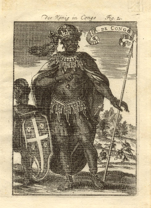 Illustration of a king of Kongo